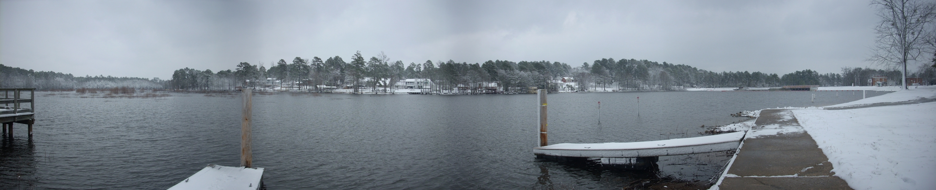 The newly rebuilt Hope Mills Lake in Hope Mills, North Carolina after a rare snowfall on January 20, 2009.